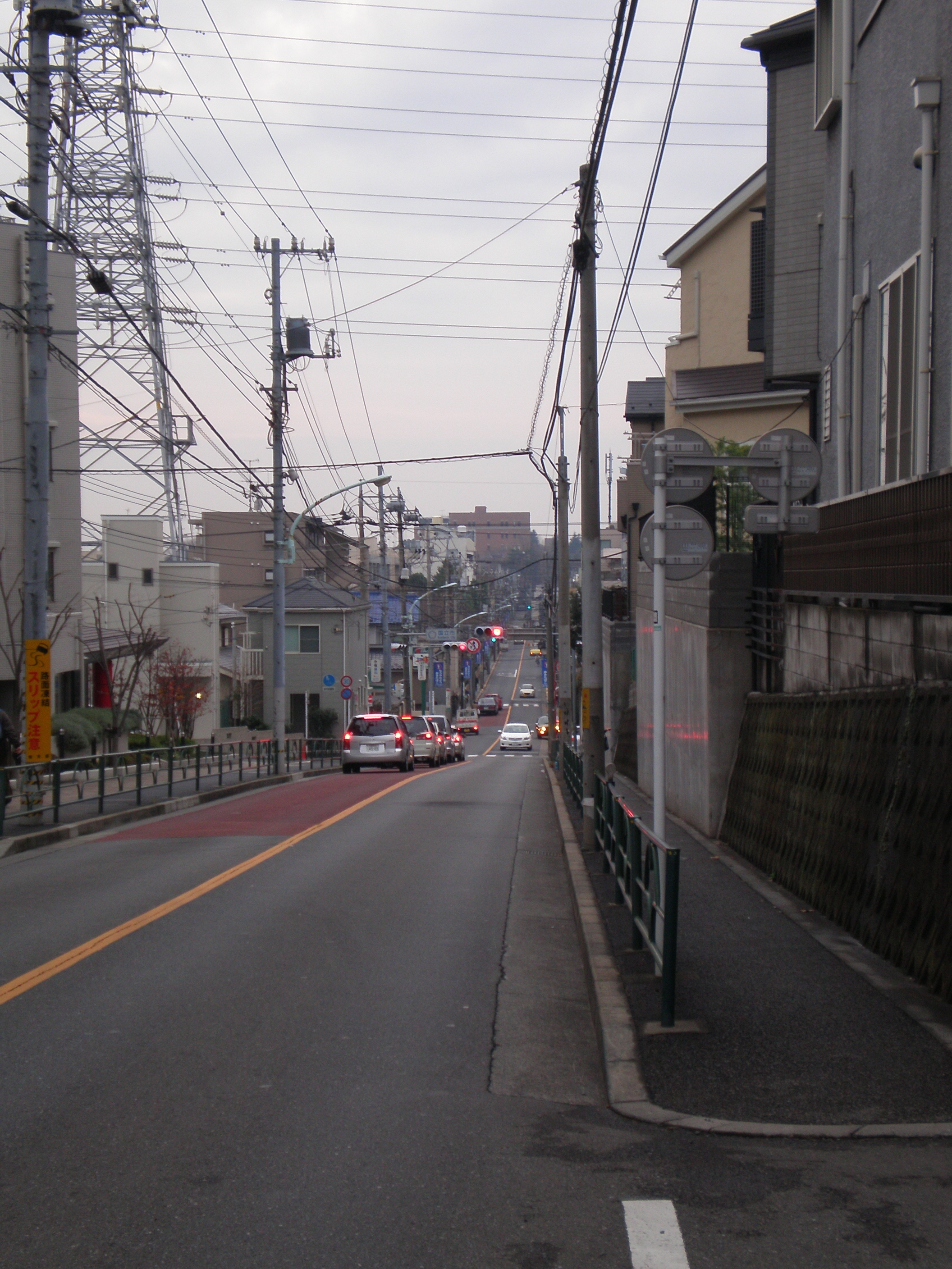 Tamaran Saka from Top of the Hill in Kokubunji, Tokyo.